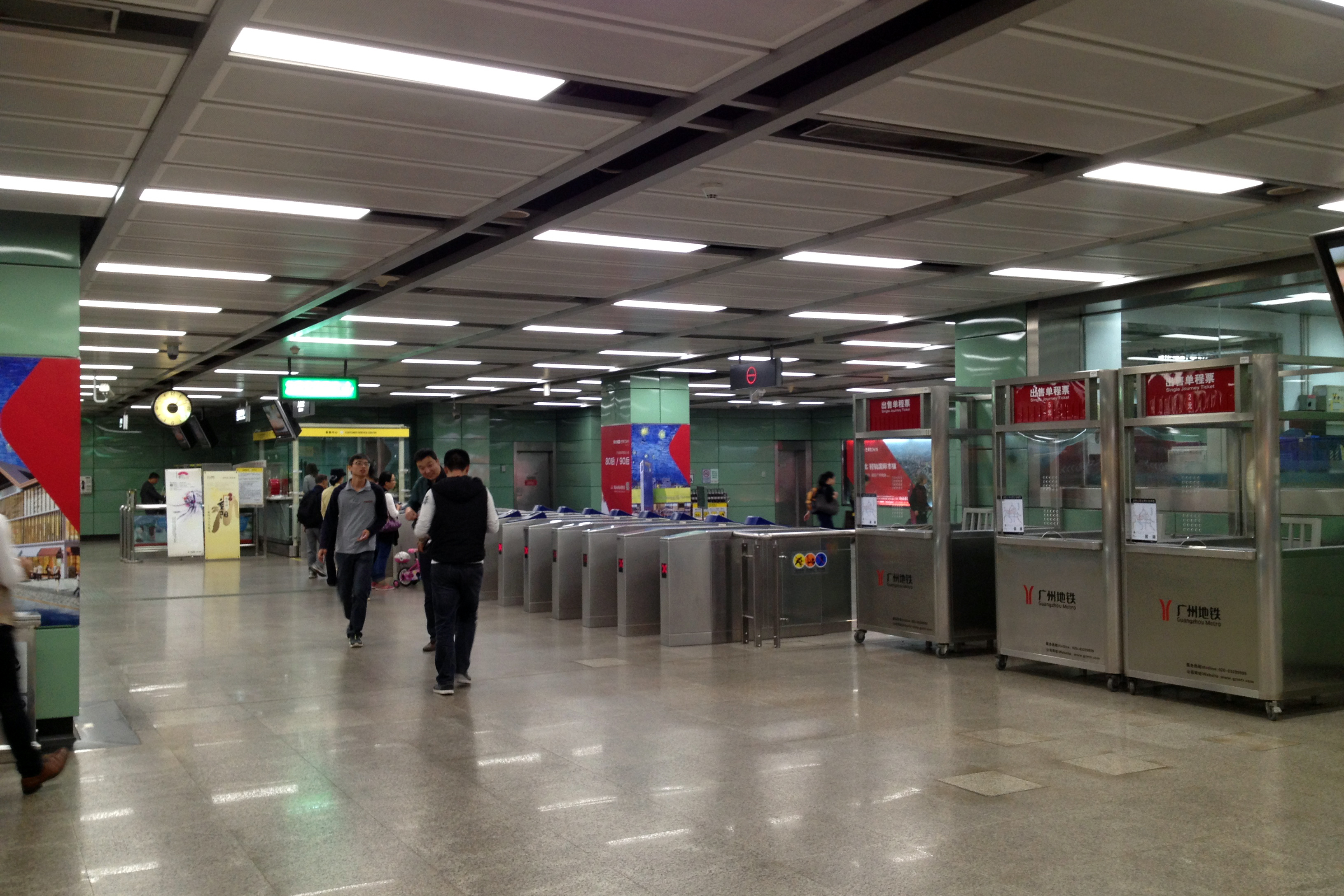 Northern Concourse for Yuexiu Park Station 粵語: 越秀公園站嘅北站廳